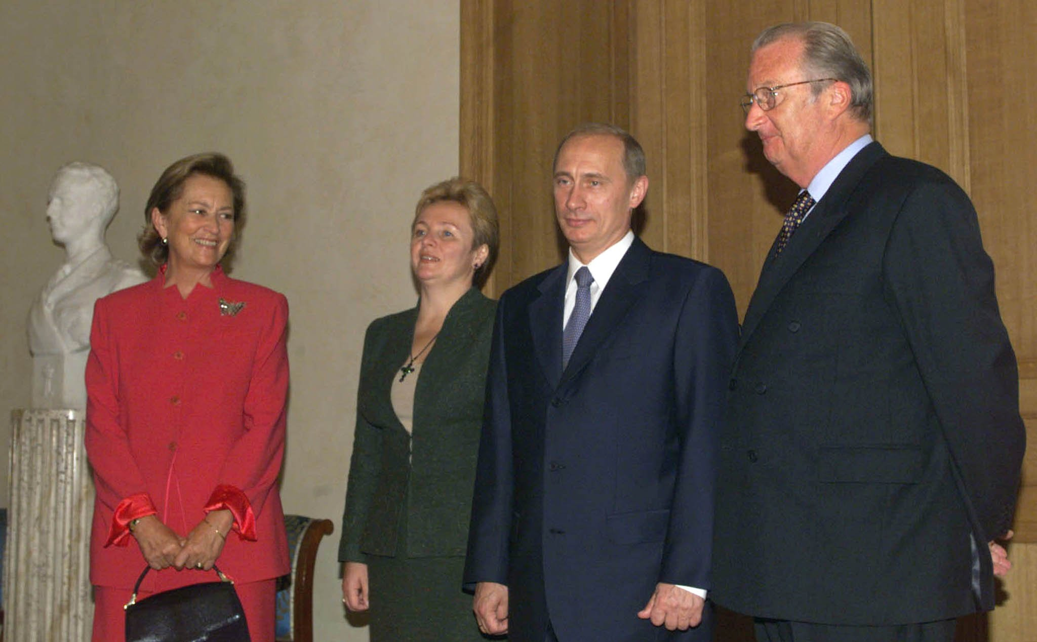 BRUSSELS. A gala luncheon given by King Albert II of Belgium and Queen Paola in honour of President Putin and Lyudmila Putina.